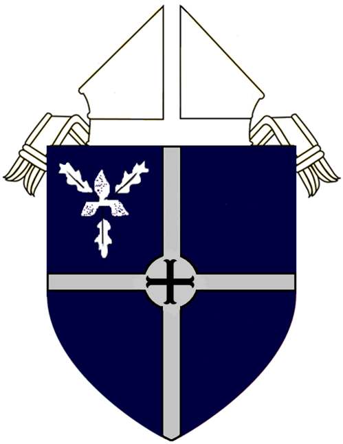 The coat of arms for the diocese of Bismarck, North Dakota, USA.